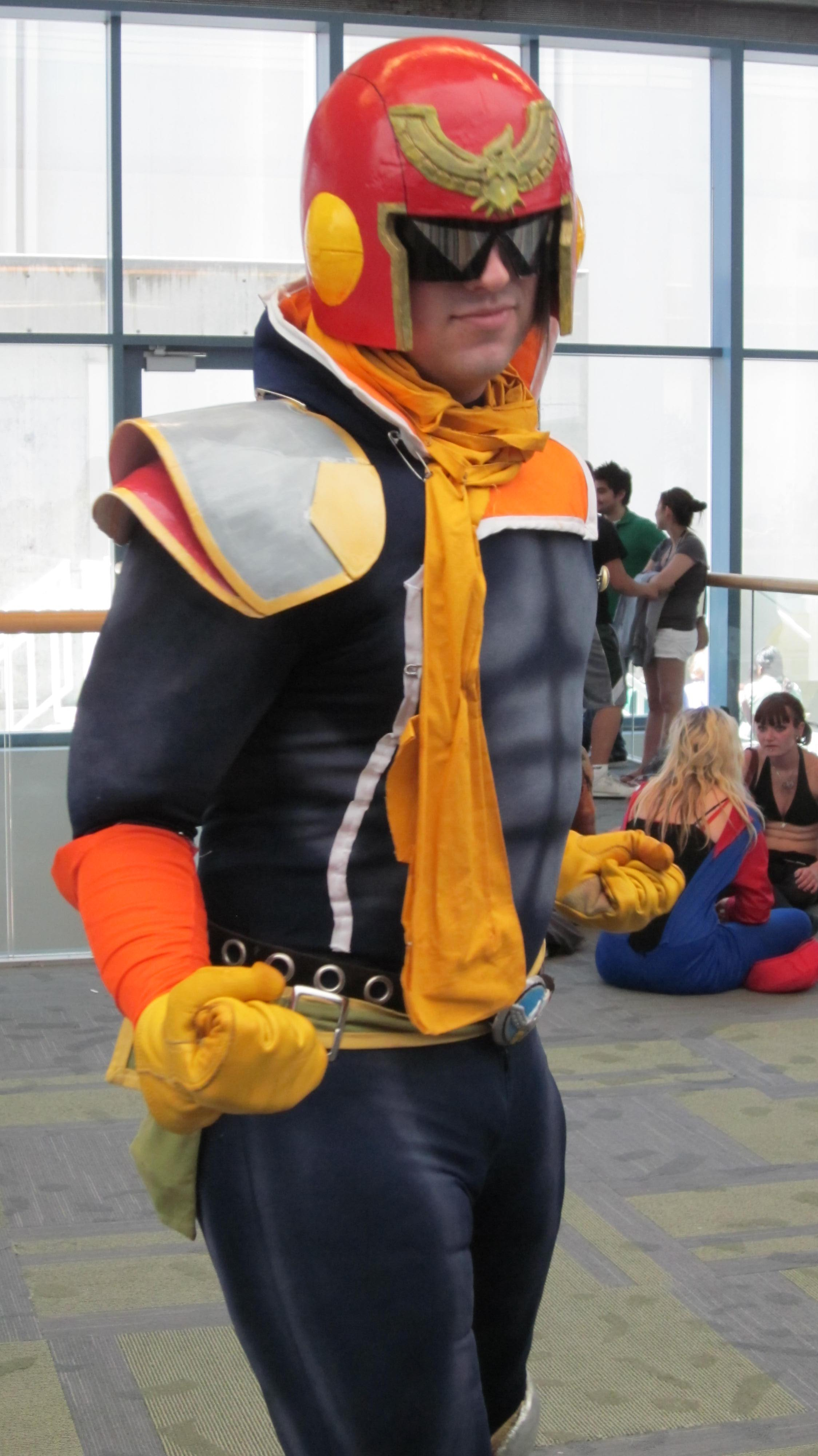 A cosplayer portraying Captain Falcon from F-Zero at FanimeCon 2010 in San Jose, California.